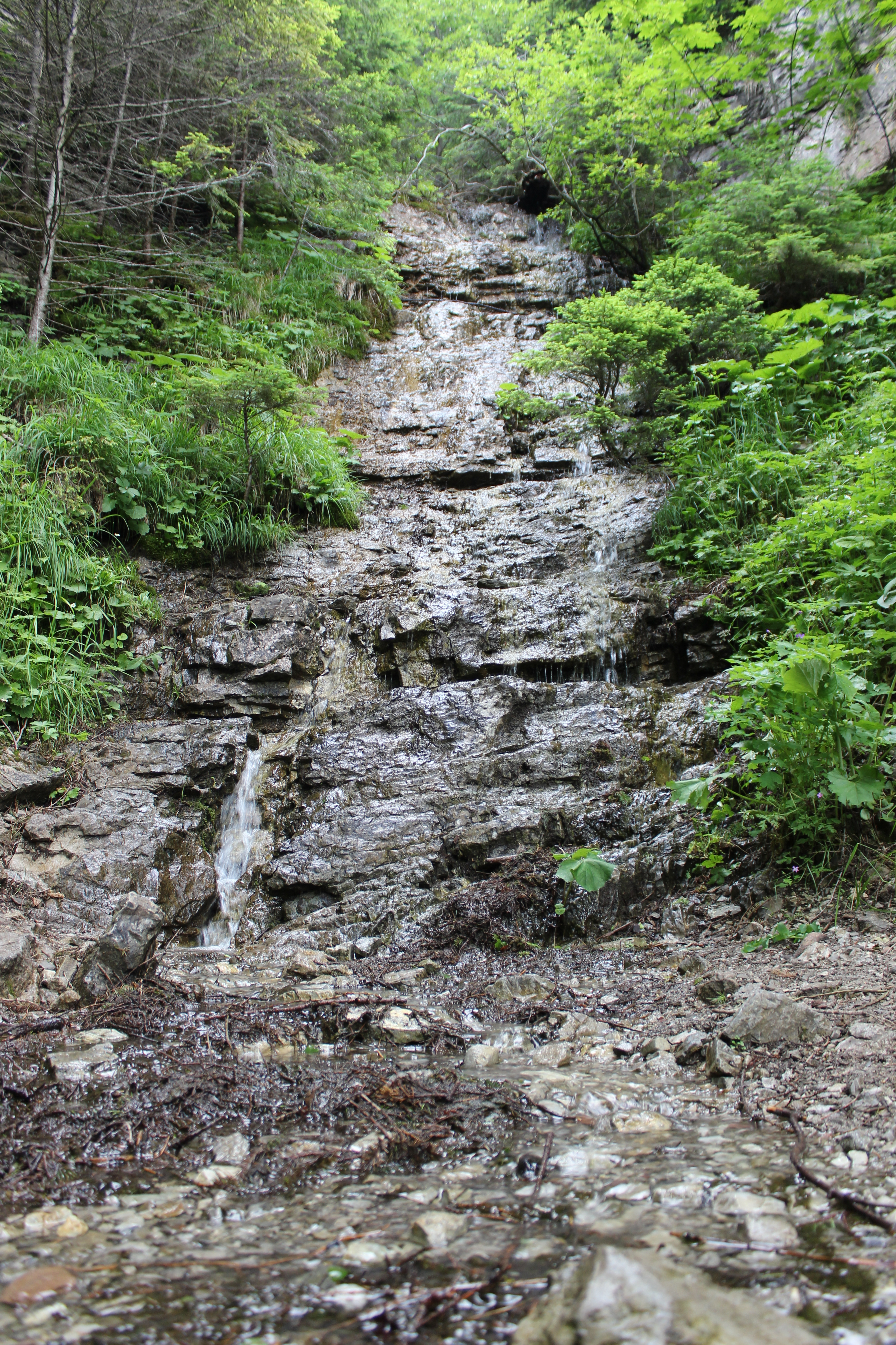 Belianske Tatra Mountains - on the tourist path from Tatranska kotlina to Plesnivec mountain hut. Slovakia This photograph was taken with a DSLR from WMCZ's Camera grant.